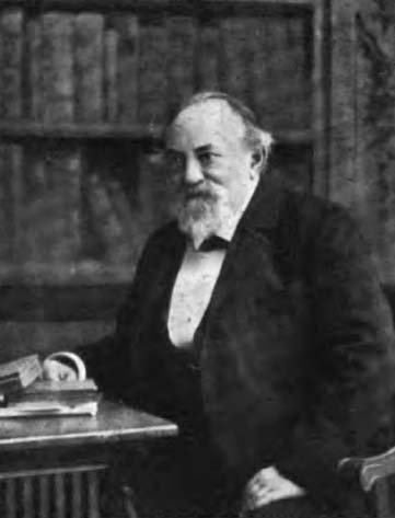 Photographic portrait of 19th century St. Louis Anzeiger des Westens editor and Westliche Post founder Carl Daenzer.